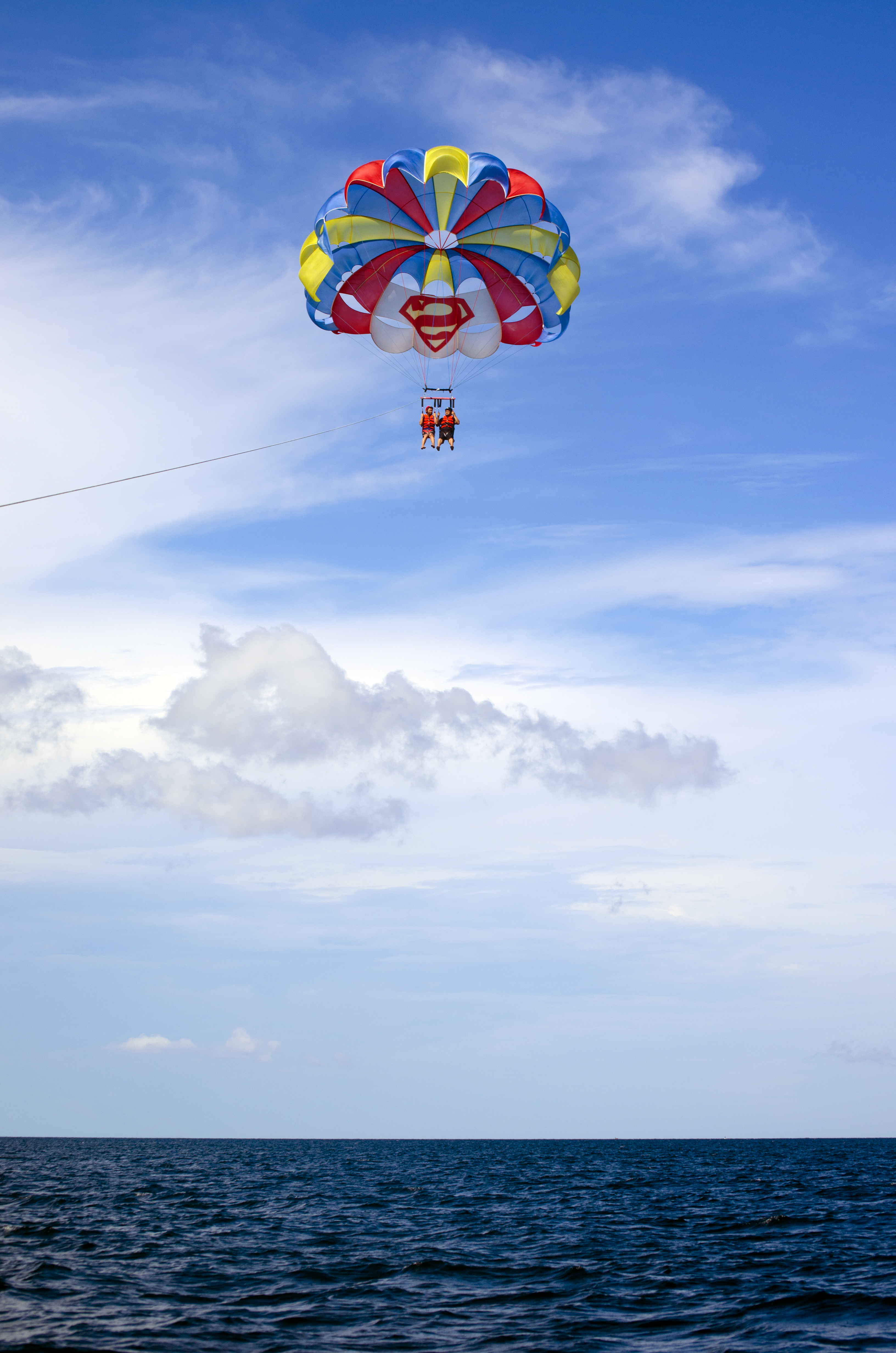 Parasailing in Boracay, Philippines